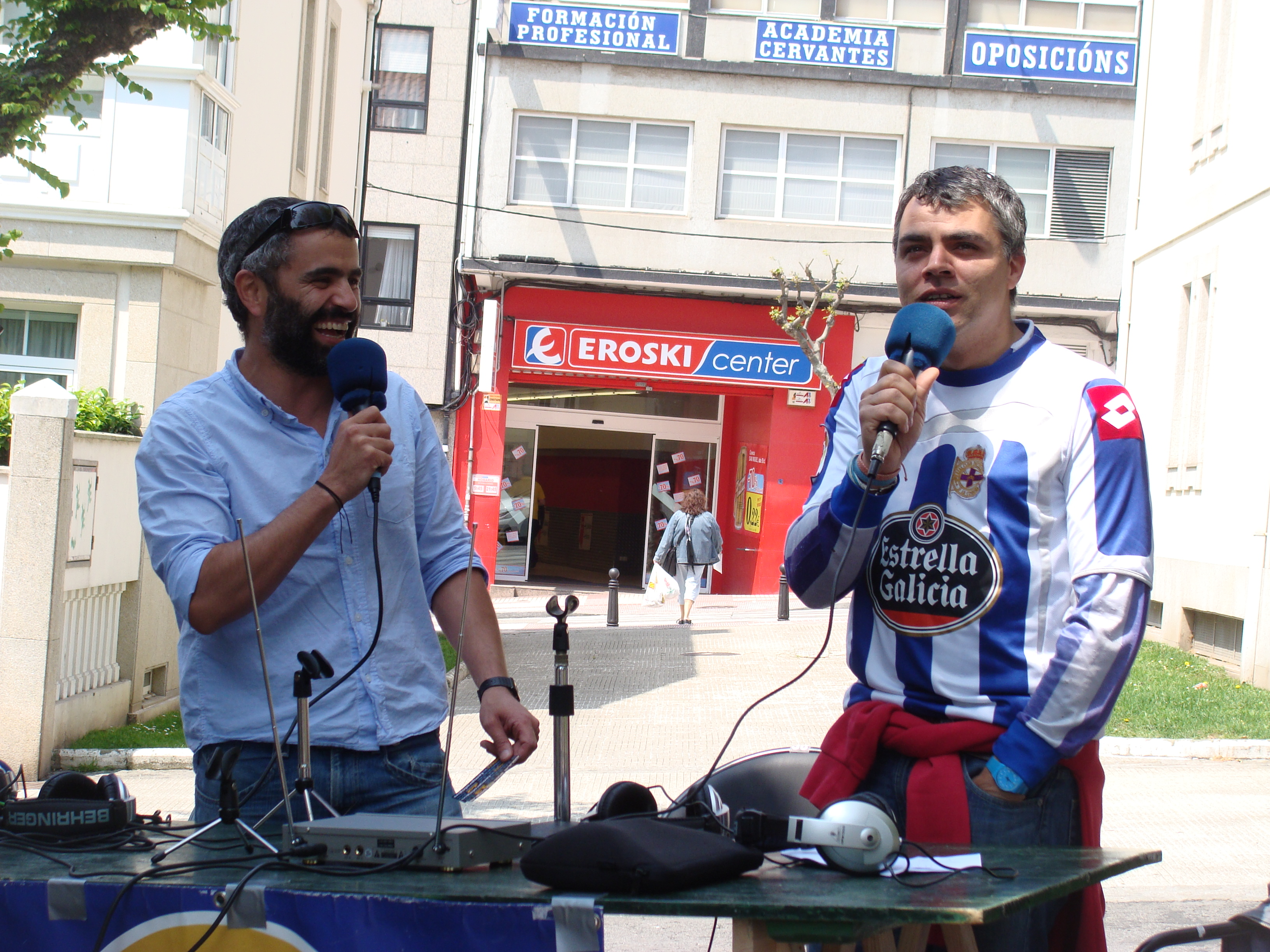 Txury Ferrer and Antón Lezcano, in the I Romaría Asociativa (featured by Cuac FM), in Parque de Marte (Corunna, Galicia, Spain)